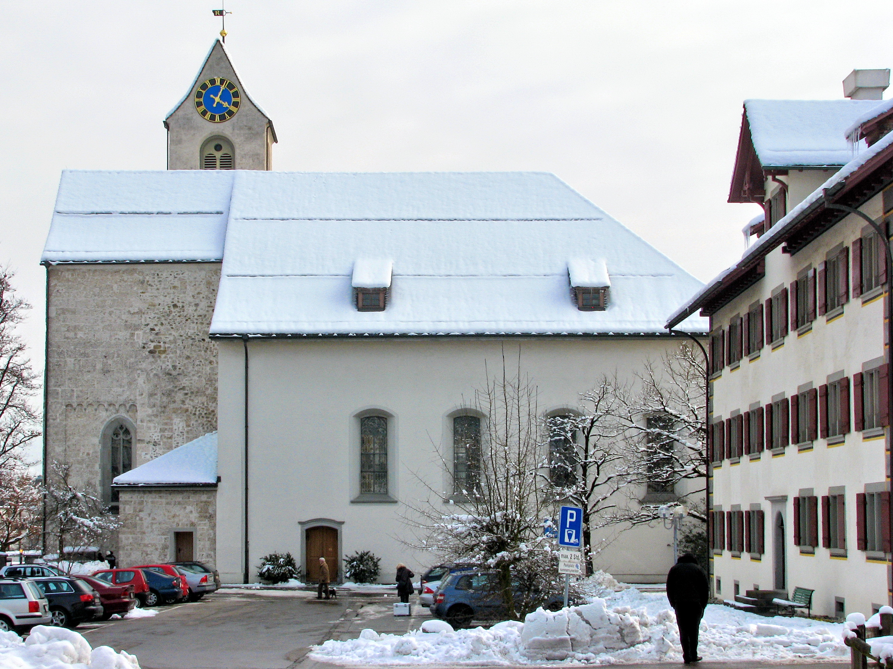 Rüti (ZH) : Former Rüti Abbey, protestant church.